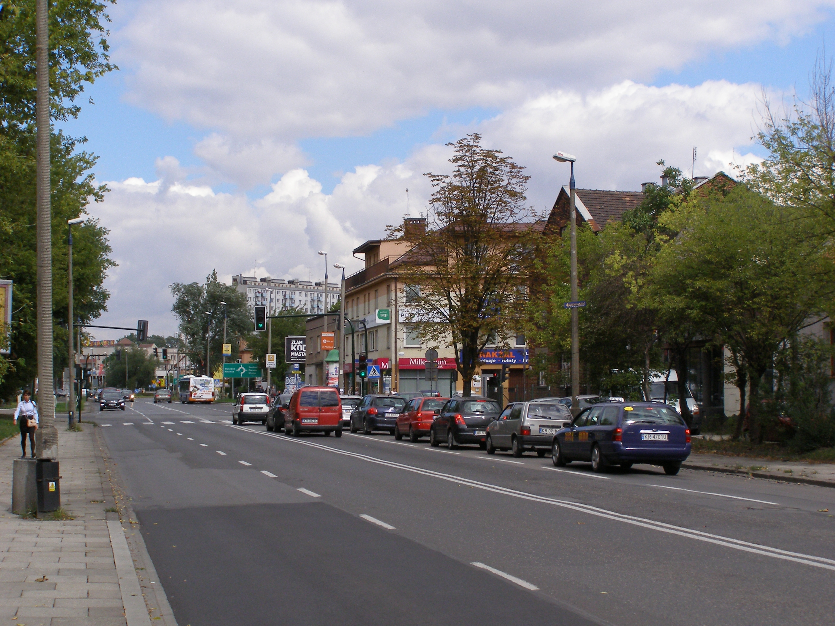 Kraków - Pilotów str.